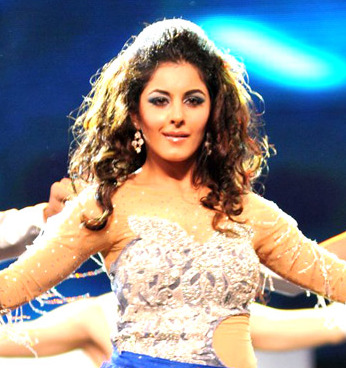 Isha Talwar performing at the 60th Filmfare Awards South